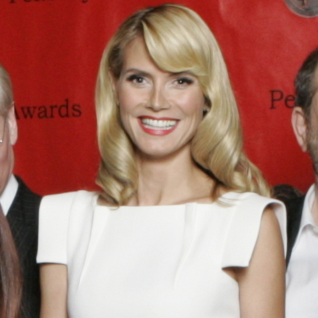 Jane Lipsitz, Harvey Weinstein, Heidi Klum, Tim Gunn and Nina Garcia 67th Annual Peabody Awards Luncheon Waldorf=Astoria Hotel New York, NY USA June 16, 2008